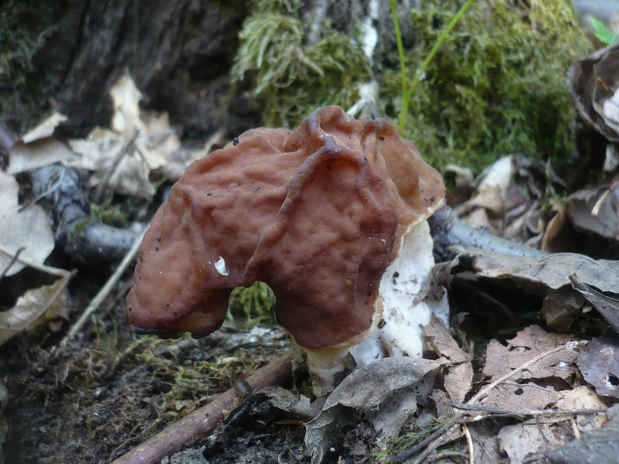 Gyromitra fastigiata (Krombh.) Rehm Image location: Gugelberg, Arbesthal, Bezirk Bruck an der Leitha, Lower Austria, Austria Recognized by sight: growing with hornbeam and ash For more information about this, see the observation page at Mushroom Observer.